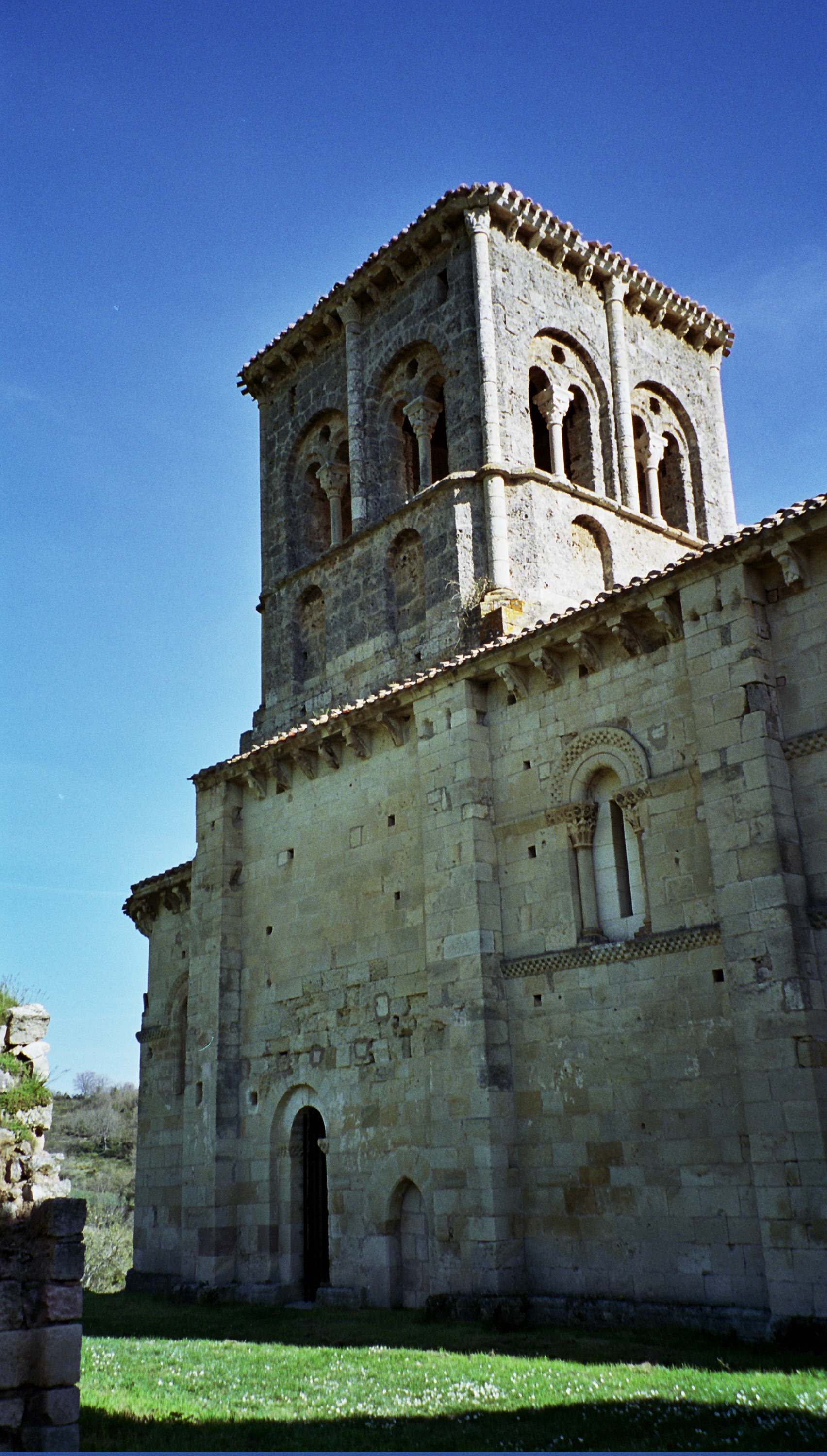 Tower of San Pedro de Tejada, Puente Arenas, Burgos (Spain).